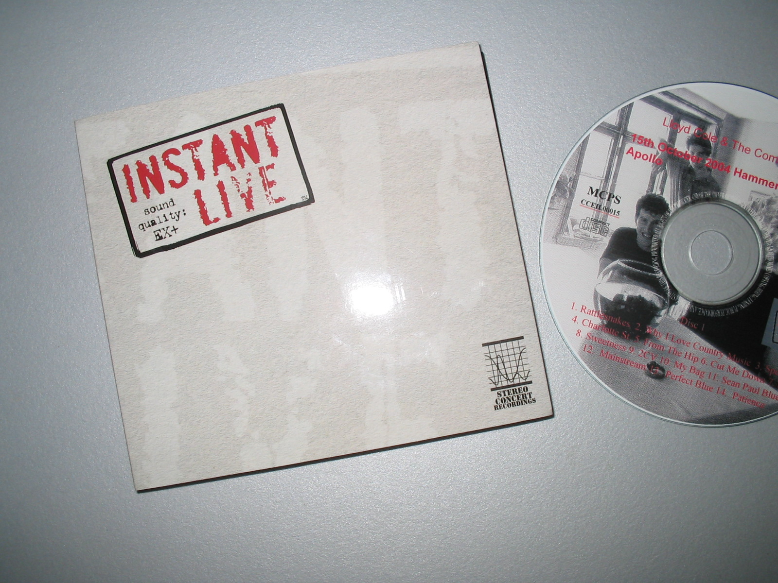 InstantLive